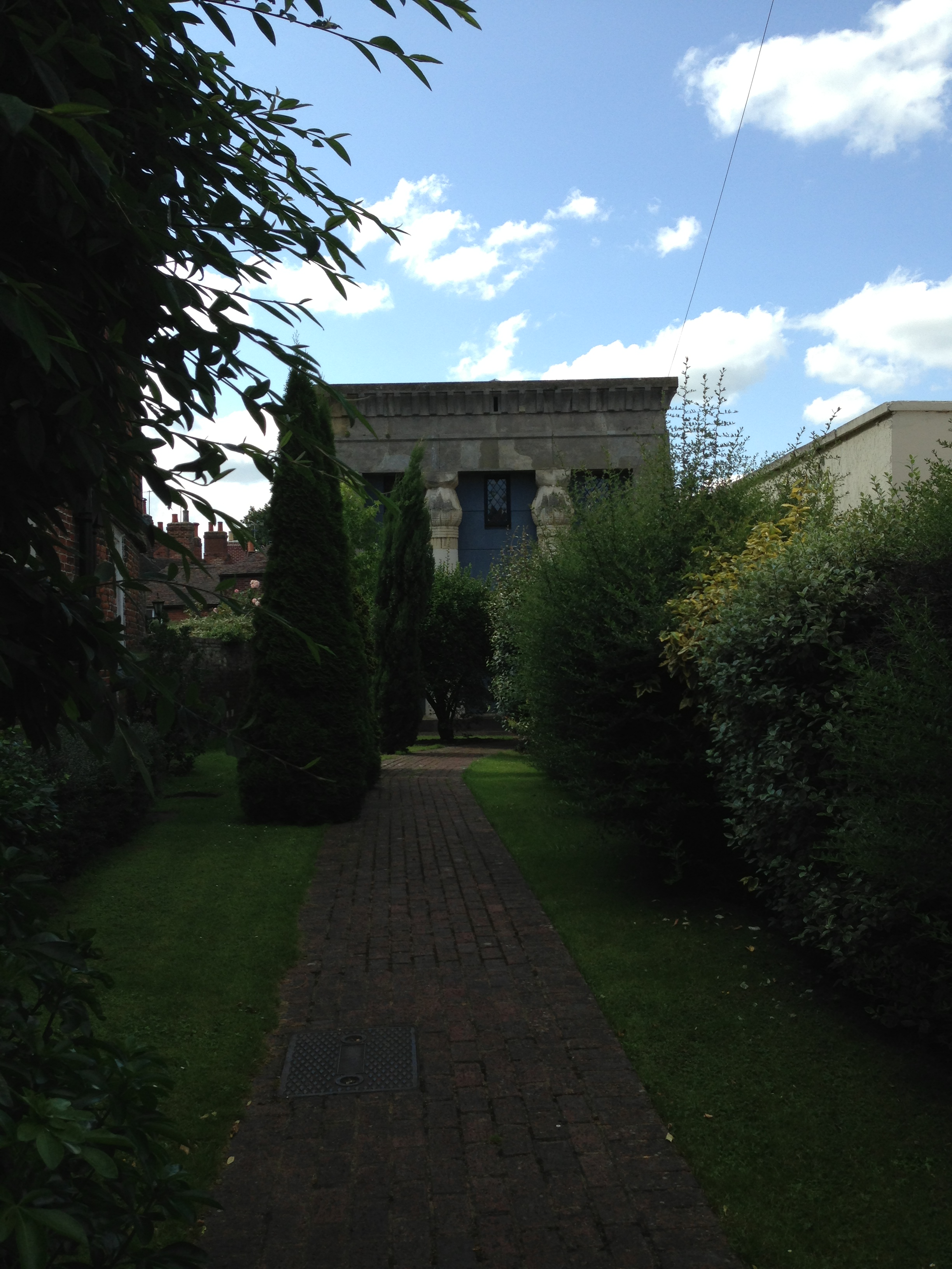 Garden and the Old Synagogue in Canterbury